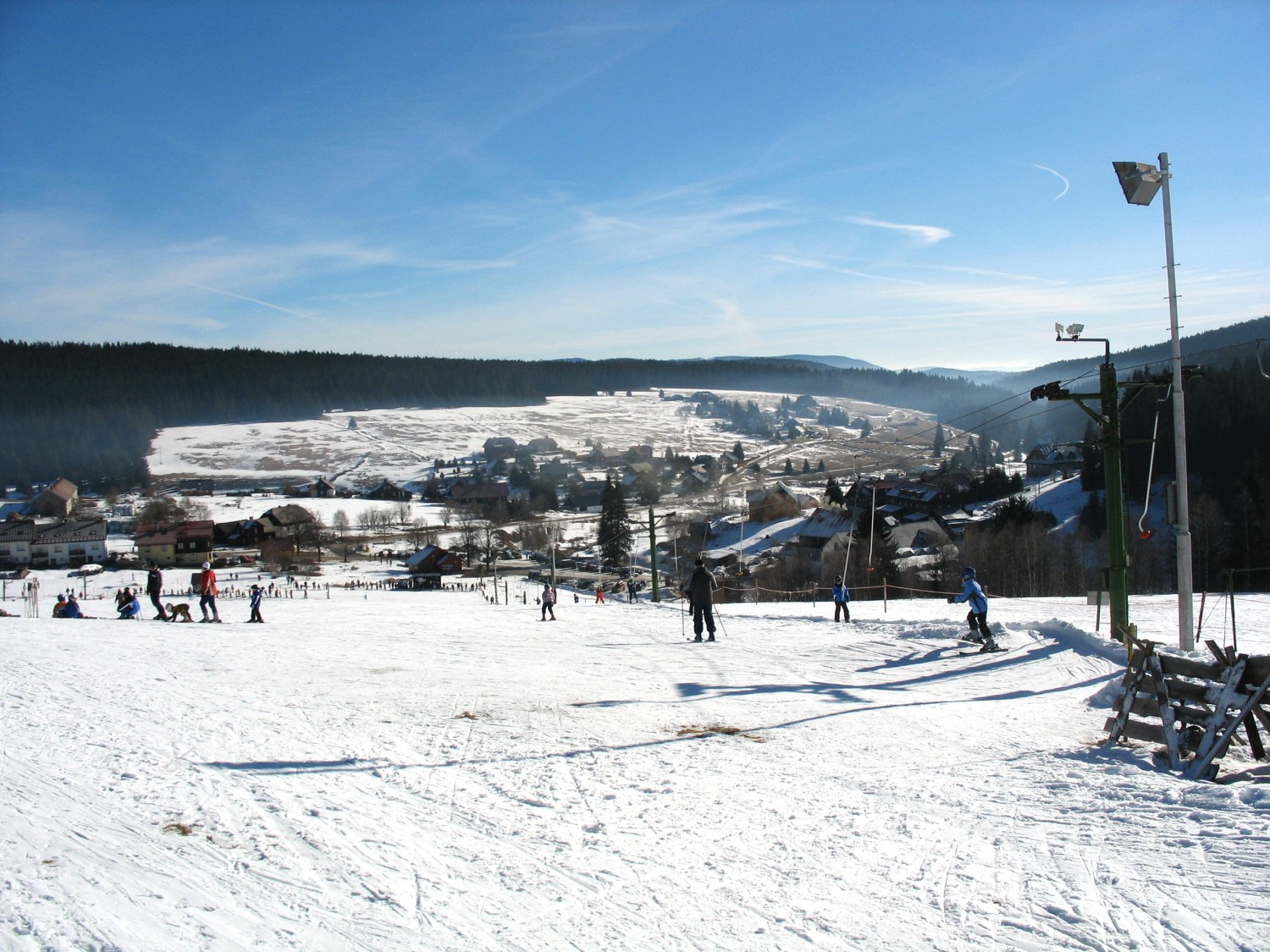 The village Kvilda in the Šumava Mts., Czech republic